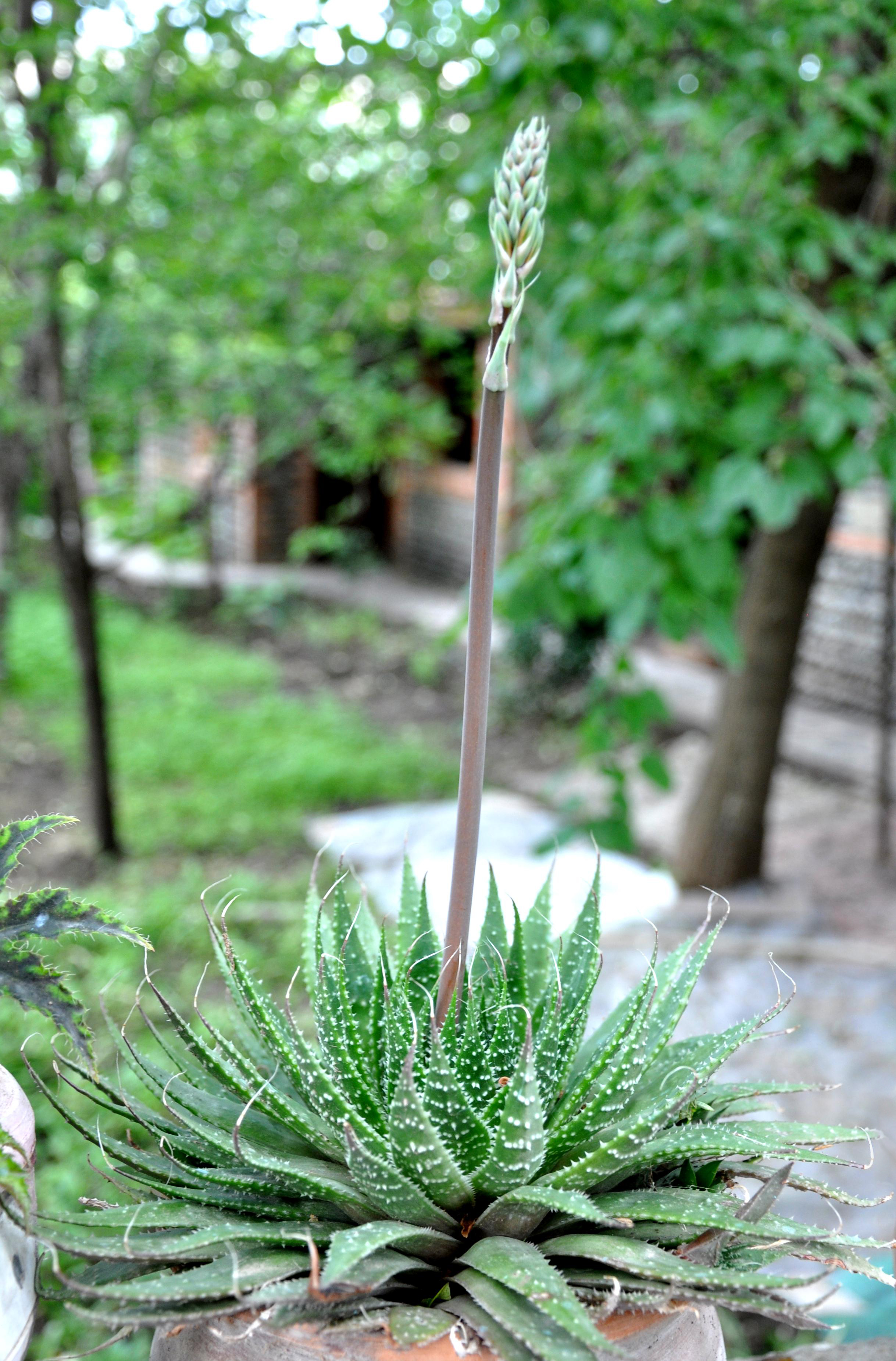 Taken in Israel, Jerusalem